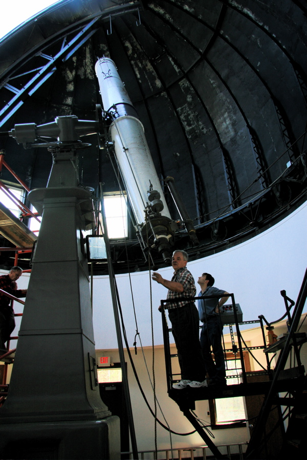 The Alvan Clark eighteen inch refractor at the Wilder Observatory of Amherst College.